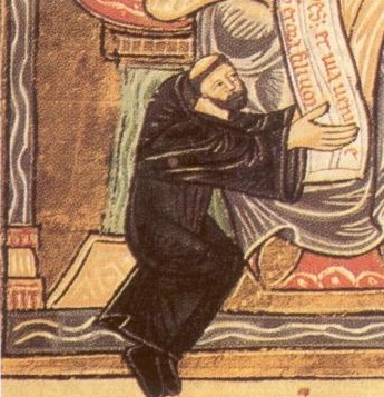 Miniature, 11th century, from a codex, with Saint Odo of Cluny